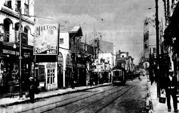 The National Cinema (1910), and Crescent on the left, The Theater of Nation on the rightTürkçe: Millî Sinema (1910) ve Hilal (solda), Millet Tiyatrosu (sağda)